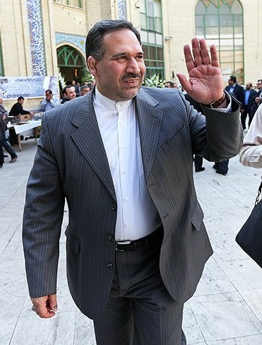 Shamseddin Hosseini, Iranian politician and economist